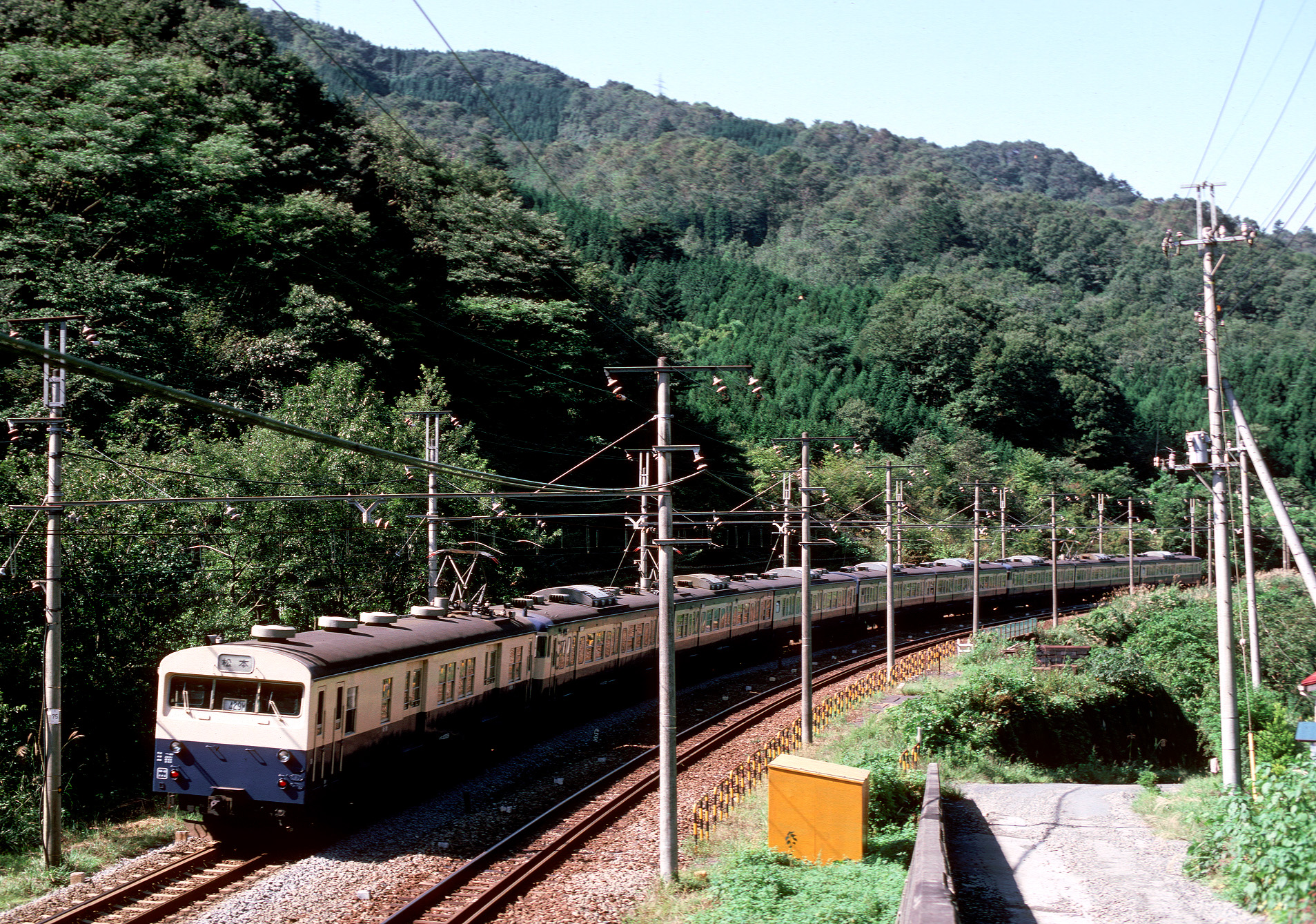 A Japanese National Railways KuMoNi 83 type EMU with a 115 series EMU on a local Chuo Main Line service, running between Takao and Sagamiko